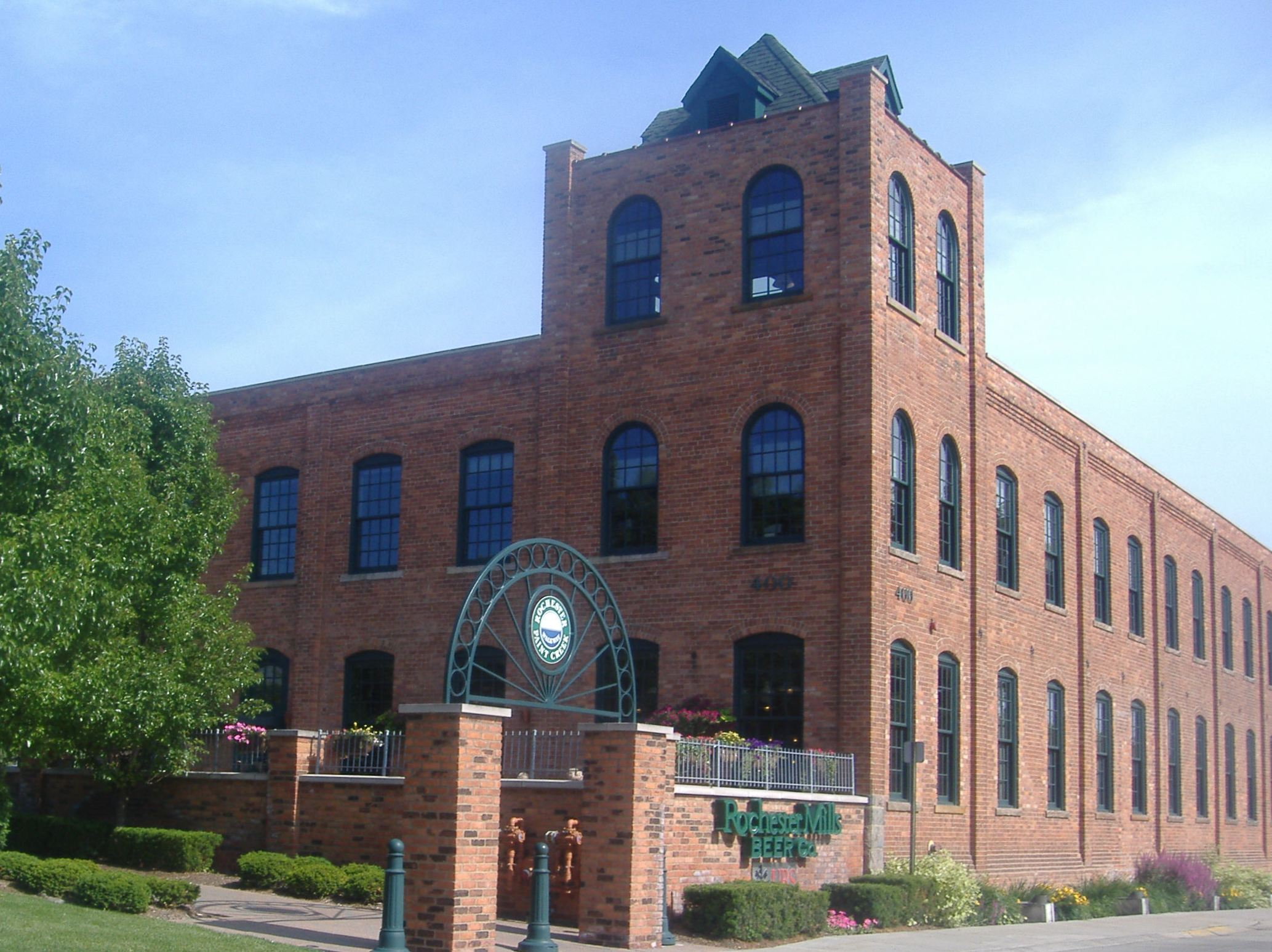 Western Knitting Mill — built in 1896, in Rochester, Michigan. Owned by brothers William & Charles Chapman and William Yawkey. With an output of 100,000 dozen pairs annually, it was one of the largest producers of these goods in the world. Later adapted and utilized during World War II for incendiary production. Today the mill is fully restored and is home to a restaurant and several businesses. Photo taken June 23, 2007.